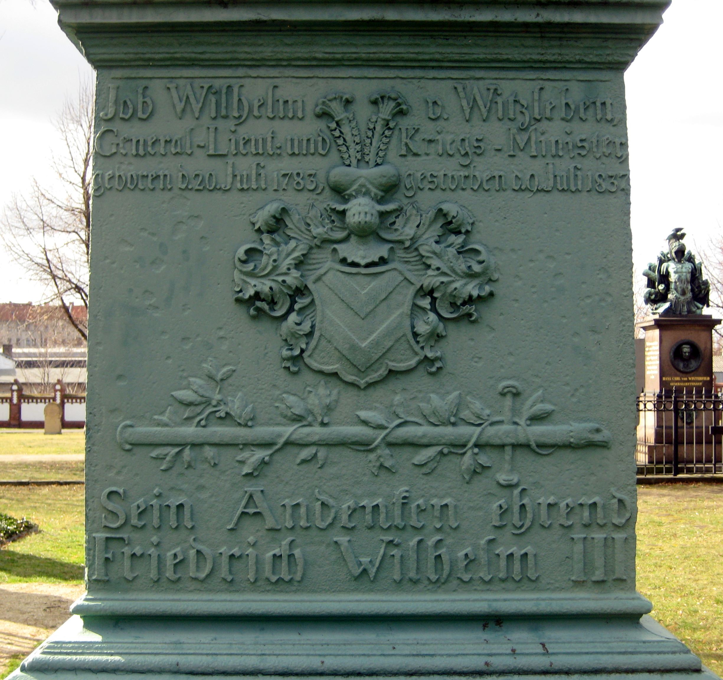 grave monument for Job von Witzleben on Invalidenfriedhof cemetery in Berlin, designed by Karl Friedrich Schinkel (1837), detail